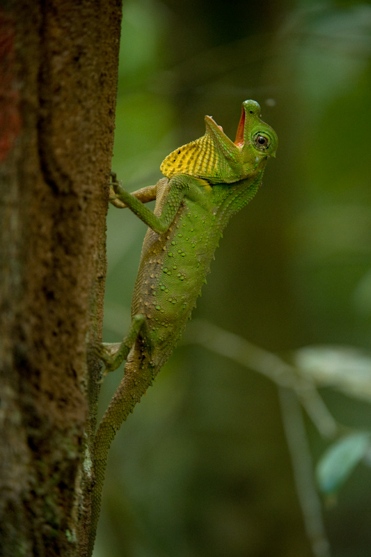 Hump-nosed lizard (Lyriocephalus scutatus) photographed in Sinharaja